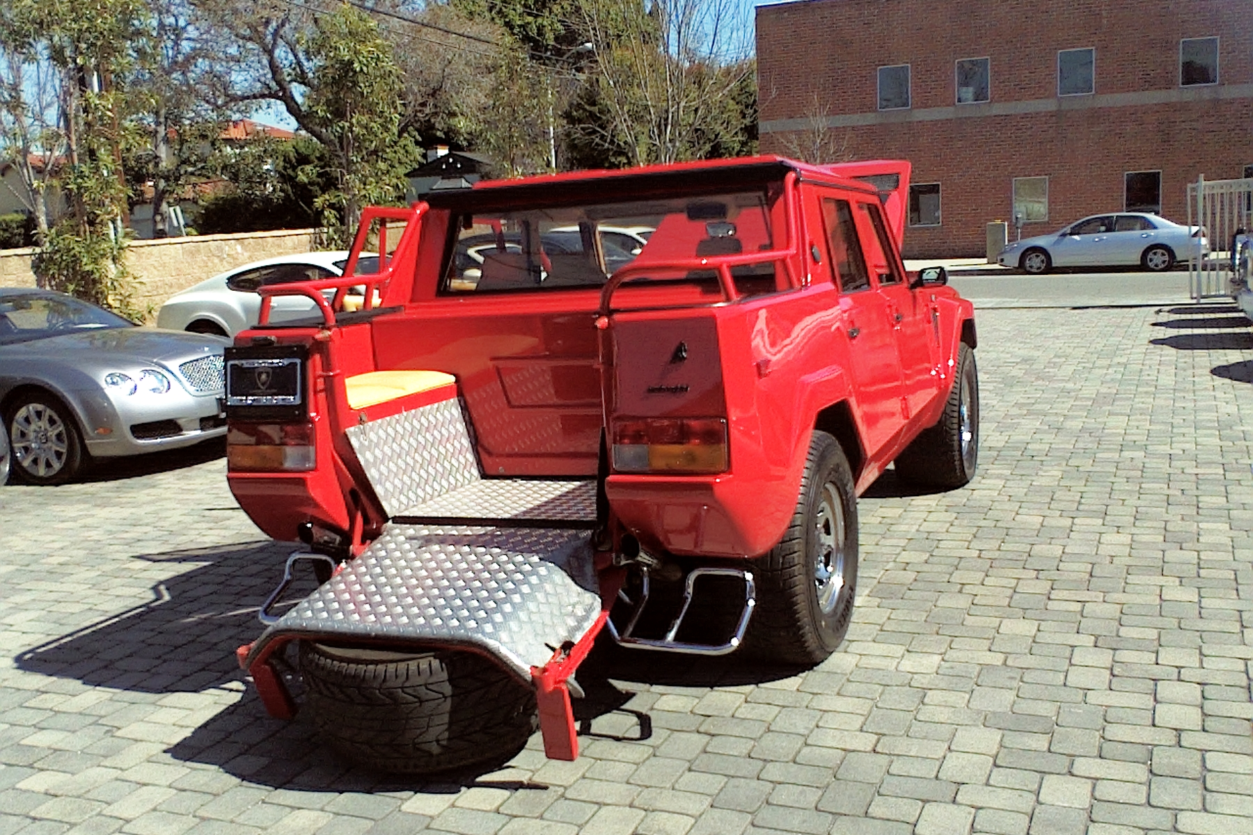 The tailgate down on a red Lamborghini LM002